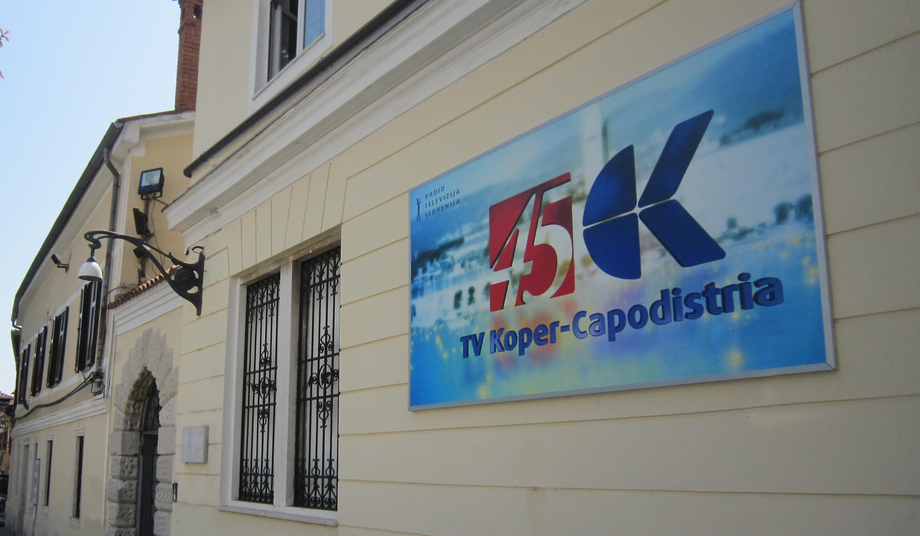 nuova insegna ingresso principale TV KC